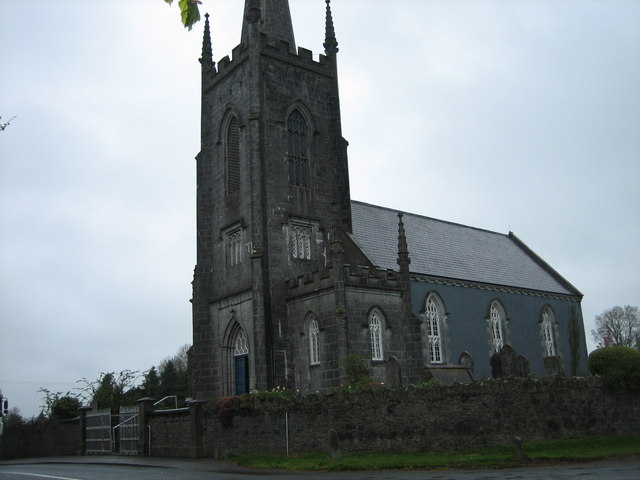 St Sinian's Tyrrellspass. The Church of Ireland parish church.